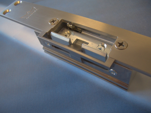 Electric strike and Easy Adapt